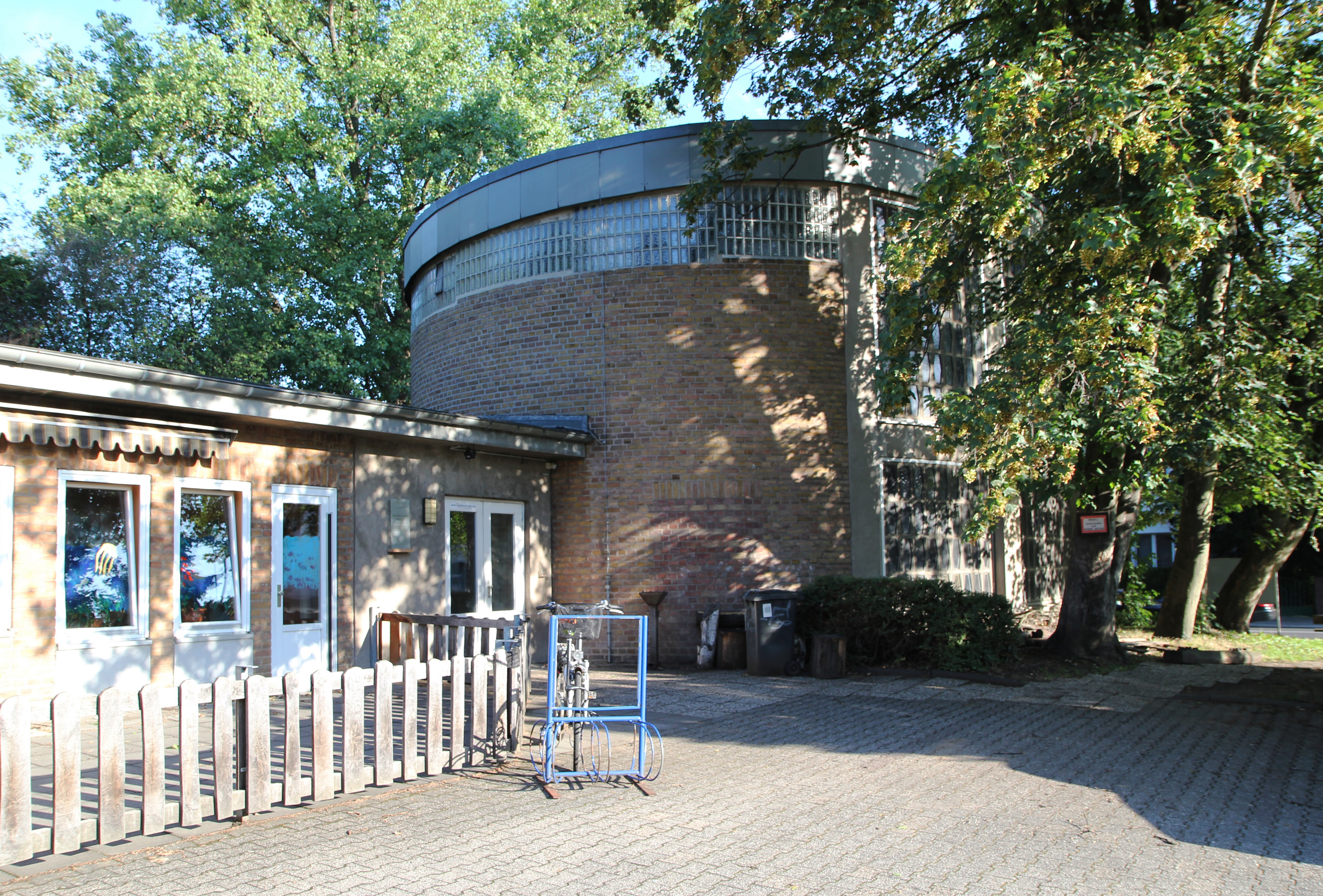 Former evangelical community center , Hürth-Hermülheim